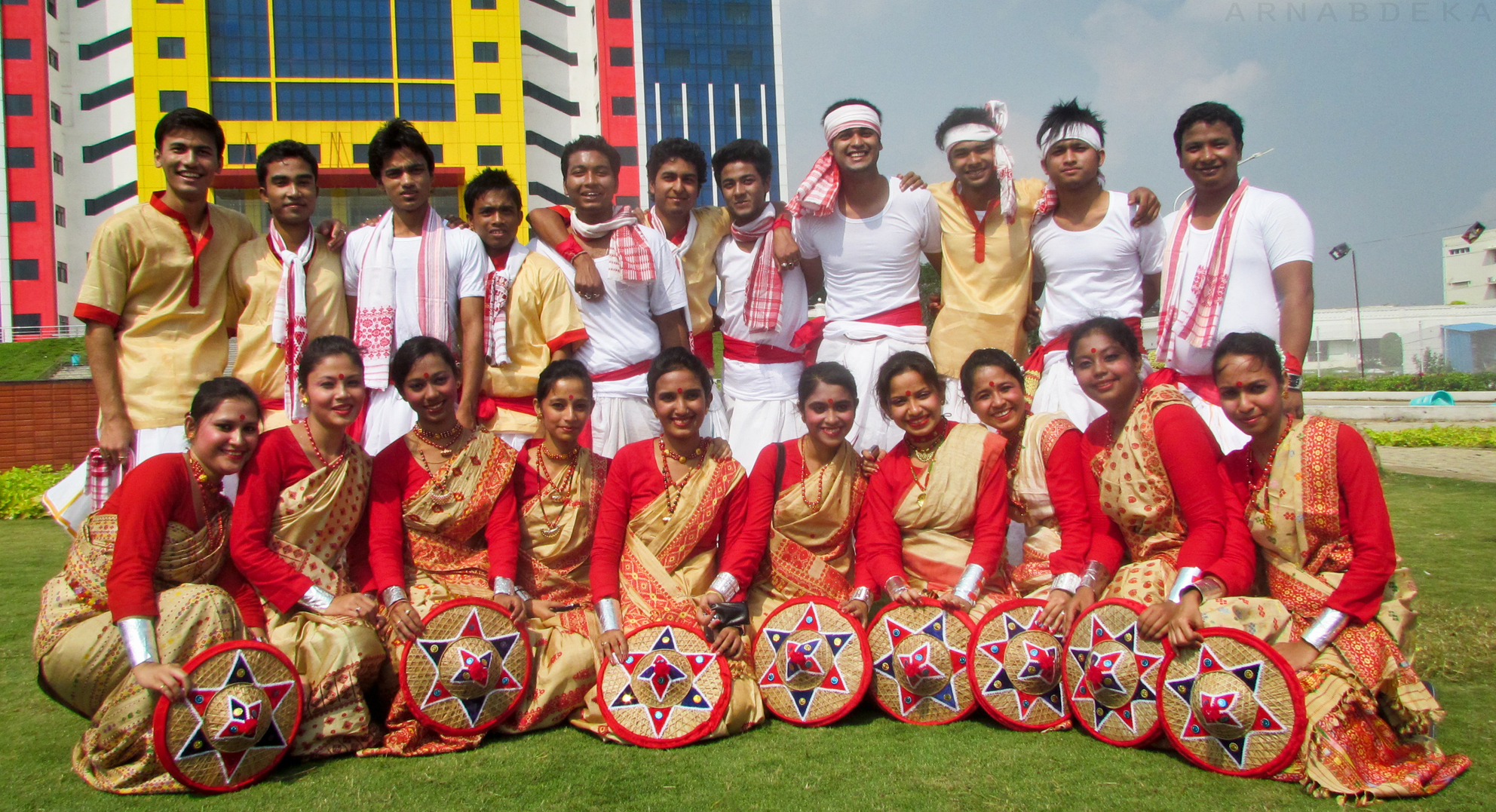 The Bihu team of SRM University, Chennai representing their state, Assam performed in the cultural festival "Milan".